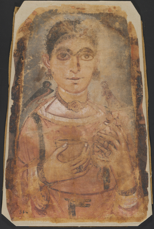 Mummy Portrait of a Woman, c Imperial Roman Egypt, possibly Sheikh-‘Ibada region Tempera on cloth 22 ¼ × 15 in. (56.5 × 38.1 cm) Painting CA 5879